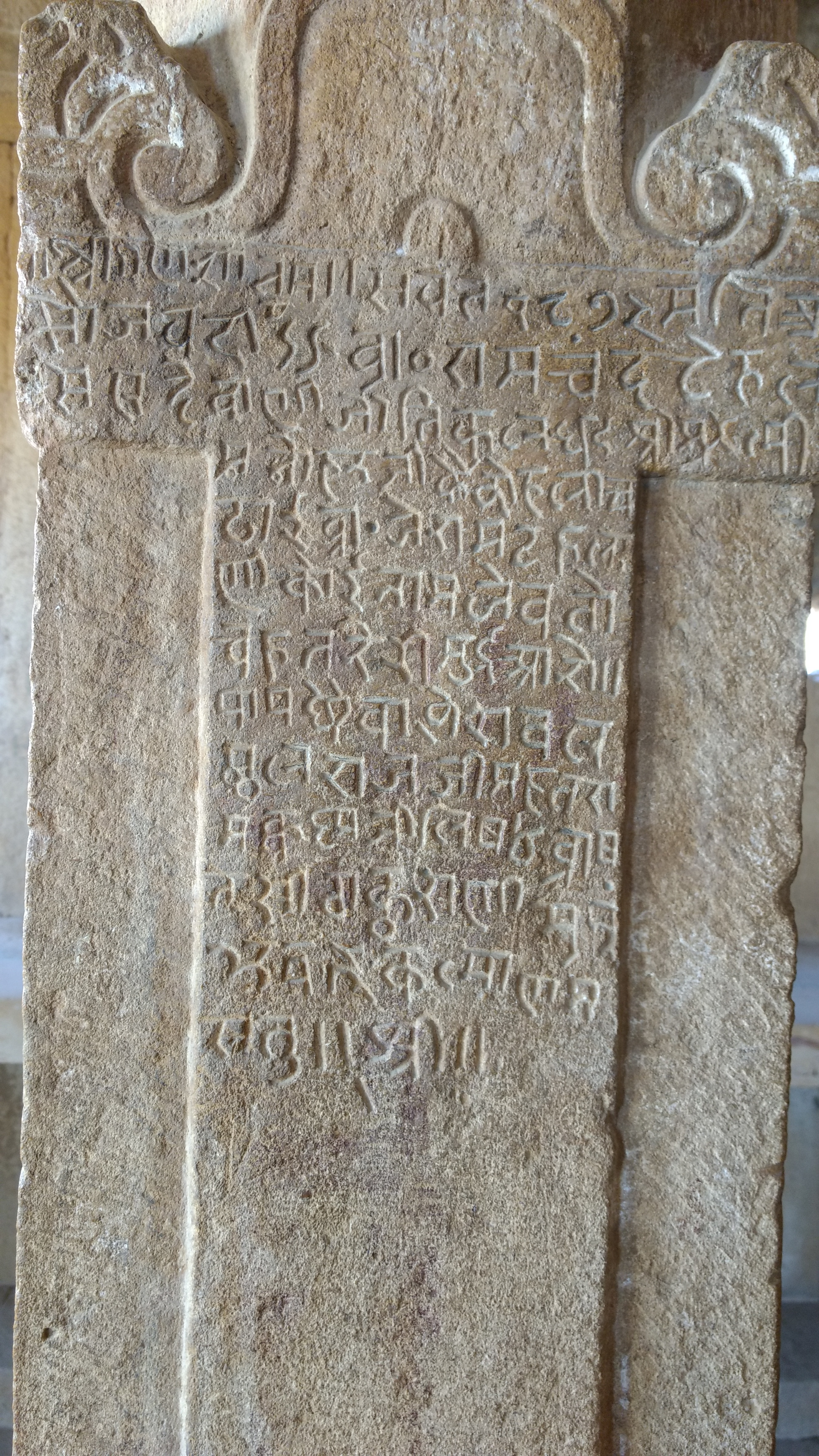 Kuldhara